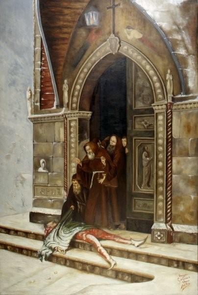 A depiction of the discovery of the body of Buoso da Duera (fl. 13th century) by Capuchin monks. Buoso was a Ghibelline leader of the Lombard city of Cremona. In 1265, Charles I of Naples (Charles of Anjou) invaded Italy to attack Manfred, King of Sicily, and claim the Kingdom of Naples. Manfred sent Buoso as one of the leaders of troops to oppose the French forces, but Buoso took a bribe and allowed them to progress to Parma and on to Lombardy to attack Manfred. When Buoso's treachery was revealed, he was expelled from Cremona in 1267, and it is said that his entire family was exterminated. He returned in 1282 but was quickly captured. In the Inferno part of the Divine Comedy (1308–1321), Dante Alighieri states that Buoso is in the ninth (and lowest) circle of Hell which is reserved for traitors: Jay Ruud (2008) Critical Companion to Dante: A Literary Reference to His Life and Work, New York, N.Y.: Facts on File, p. 404 ISBN: 978-0-8160-6521-9.